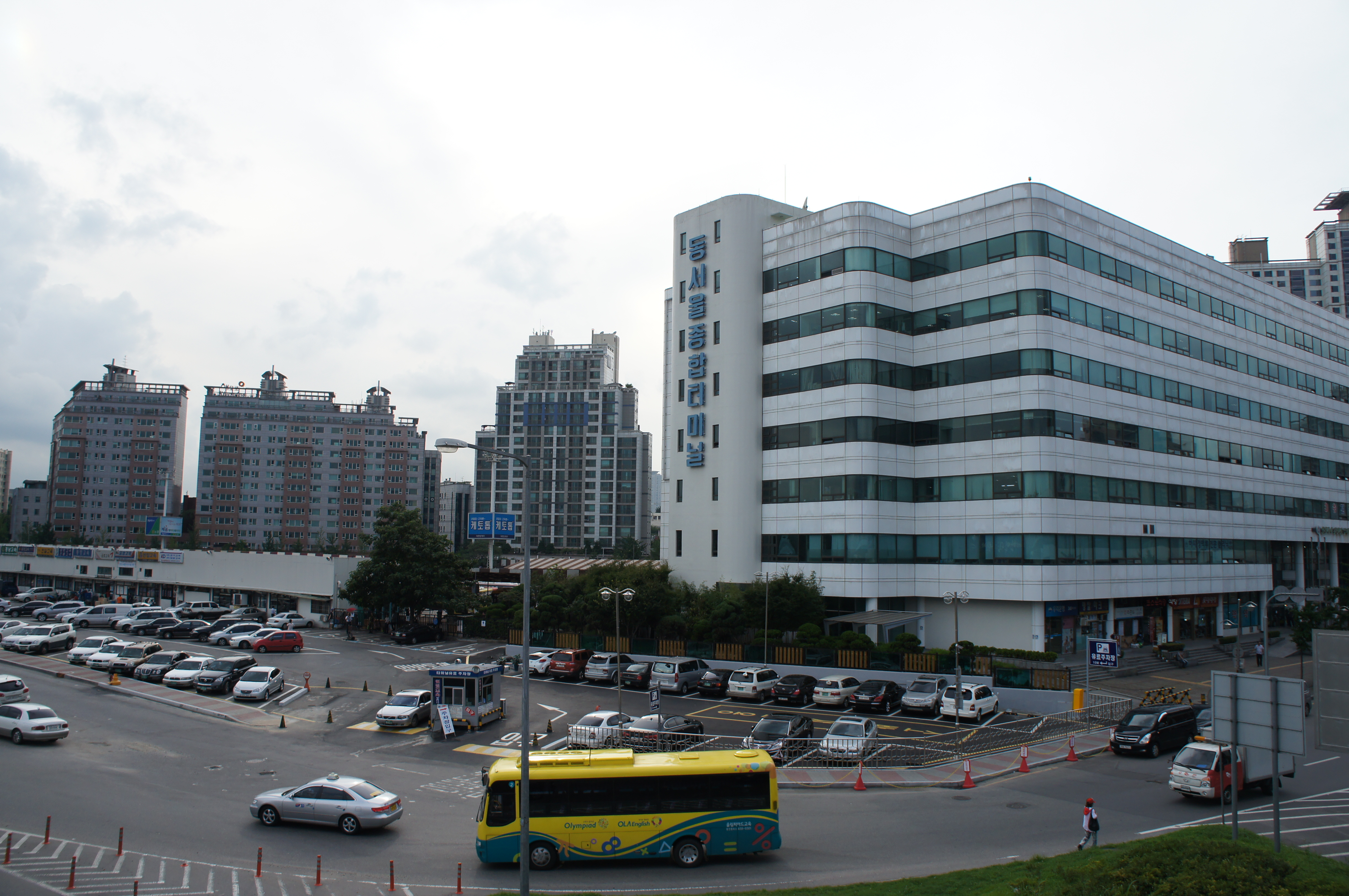 Eastern Seoul Bus Terminal in Gwangjin-gu, Seoul, South Korea